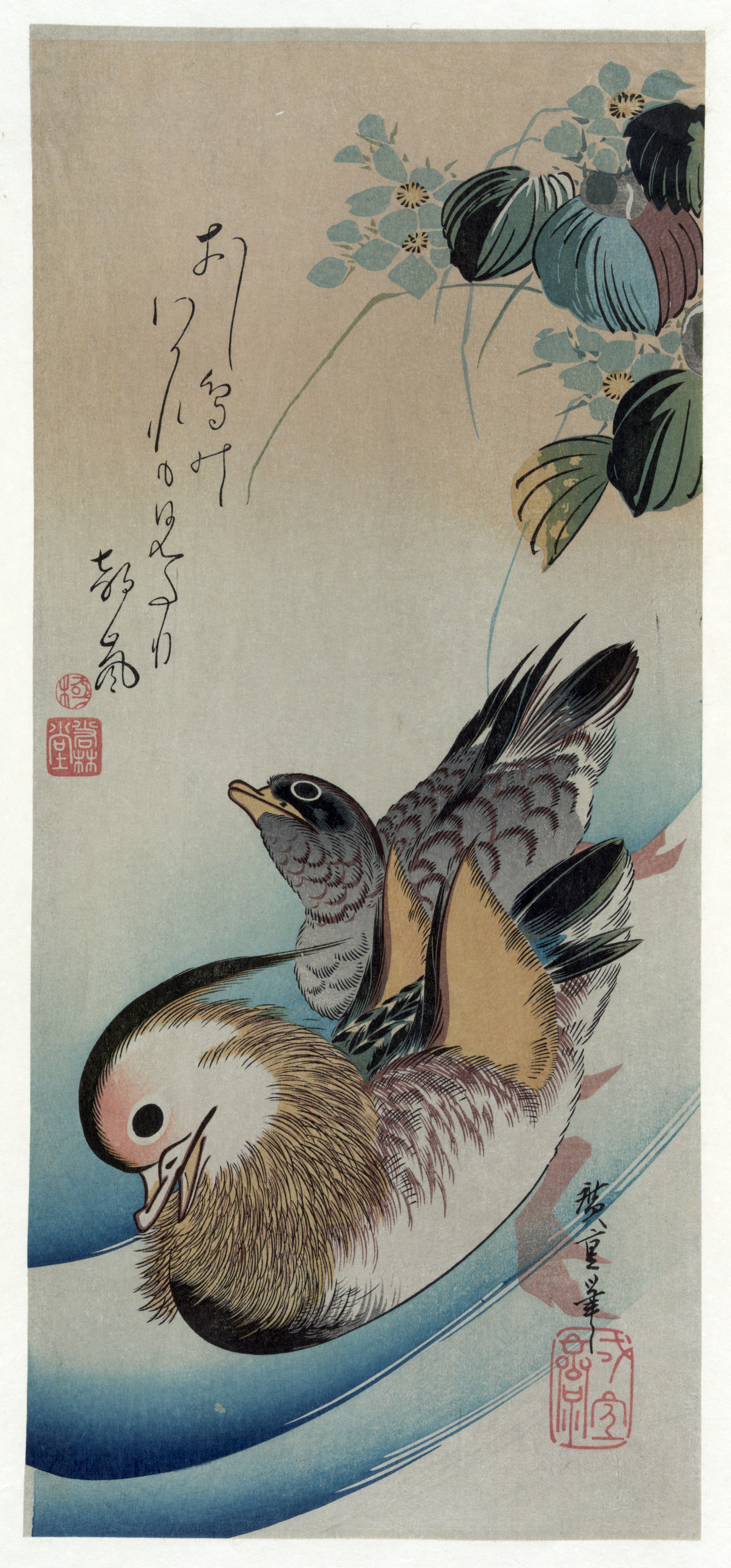 Ukiyo-e print of two mandarin ducks by Andō Hiroshige, 1838